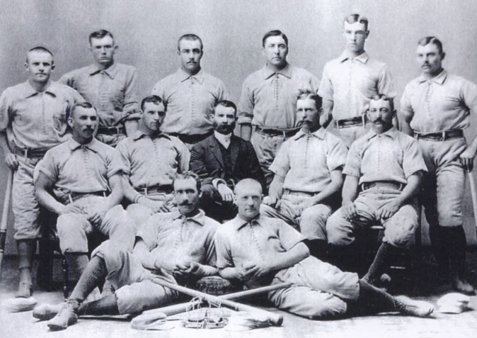 1884 Columbus Buckeyes baseball teamBack row, L-R: John Cahill, Ed Dundon, Fred Carroll, Rudy Kemmler, Jim Field, Bill KuehneMiddle row, L-R: Fred Mann, Tom Brown, Gus Schmelz, Pop Smith, John RichmondFront row, L-R: Frank Mountain, Ed Morris